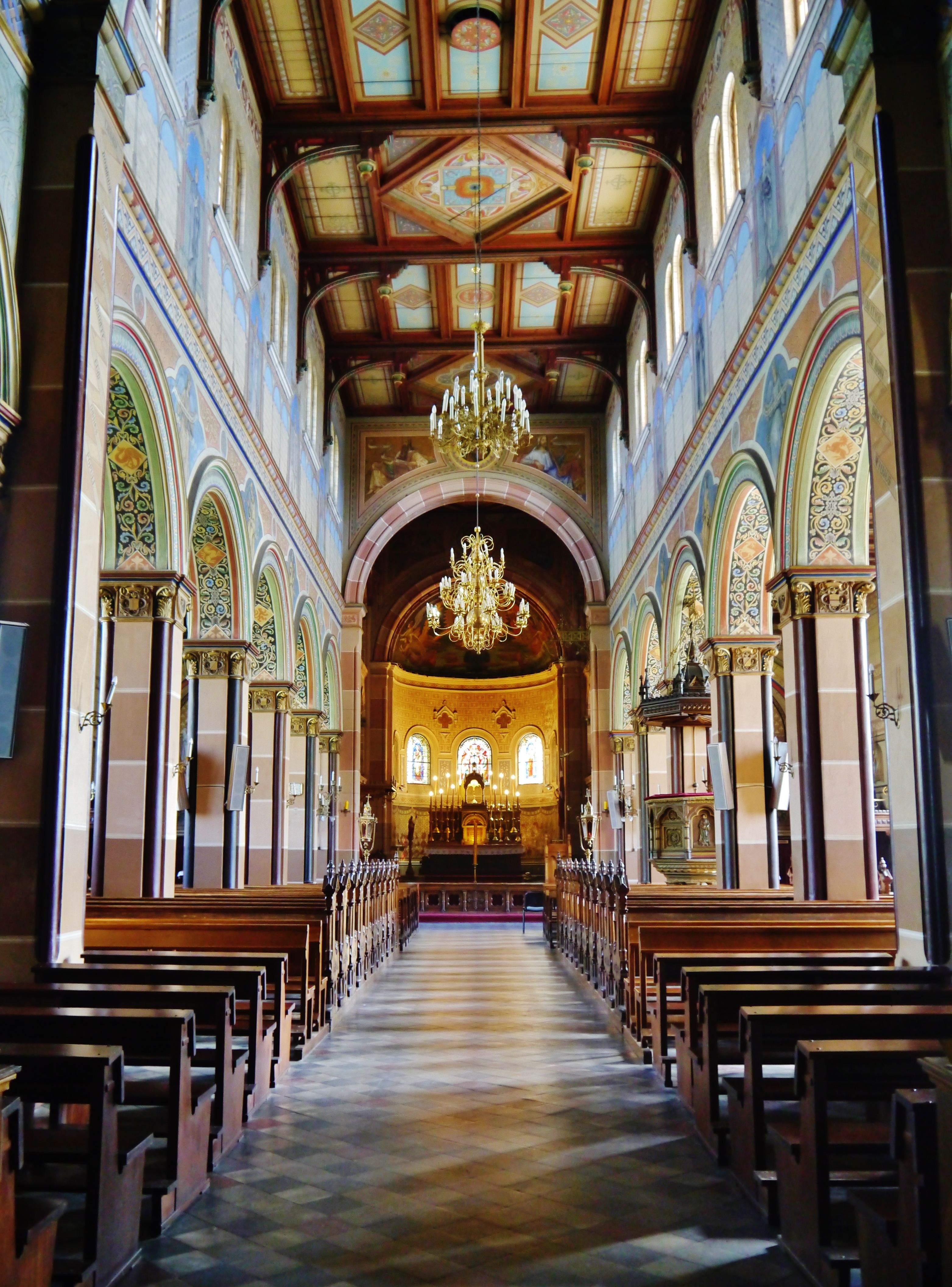 Nave of the Catholic Cathedral St. Joseph, Liepaja, Latvia